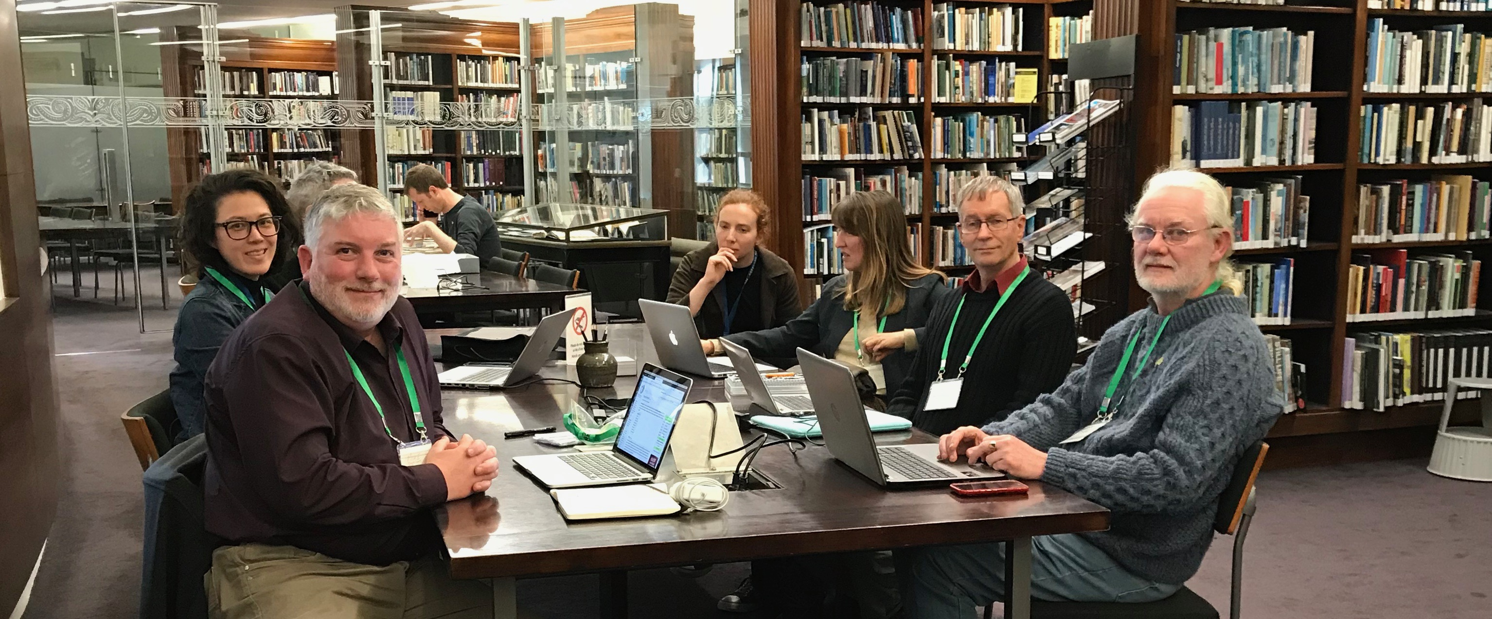 Participants in Auckland Wikipedia Meetup 8, Auckland Museum library, 21 July 2018. Left to right: Lanipai, Tayste (obscured), Giantflightlessbirds, Susan Tol, Justine, Daption, and Gadfium.